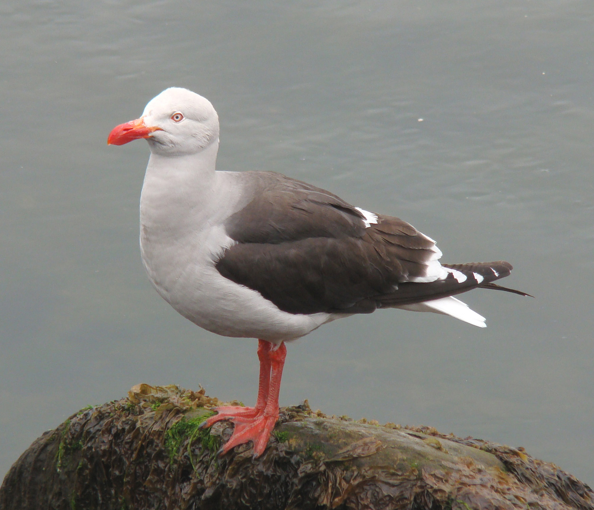 Dolphin Gull, Leucophaeus scoresbii photographed in Beagle Channel, Argentina, on January 2009.